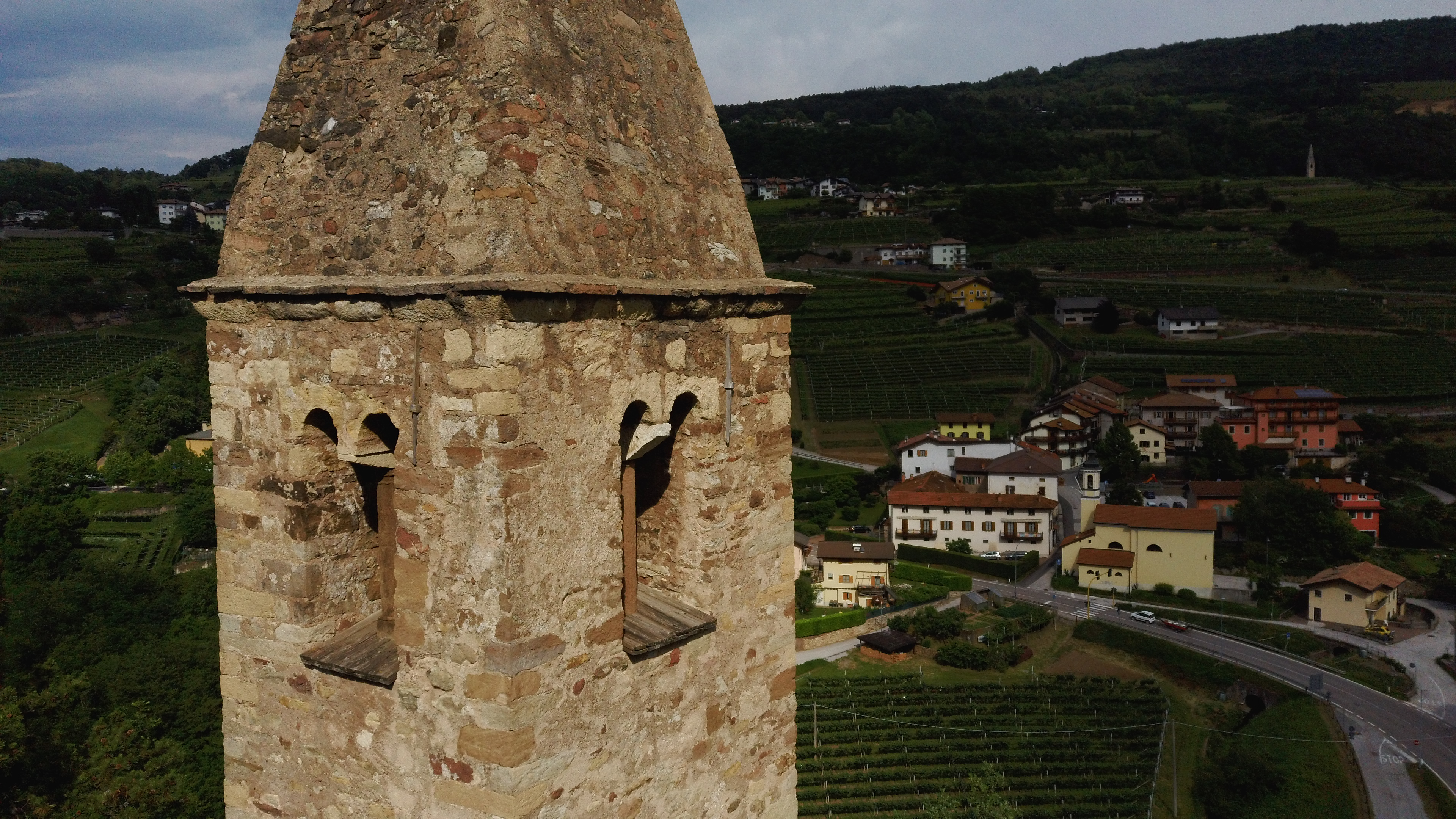 Il campanile di San Martino a Gazzadina (Trento); sullo sfondo, il paese con la chiesa parrocchiale della Madonna di Caravaggio